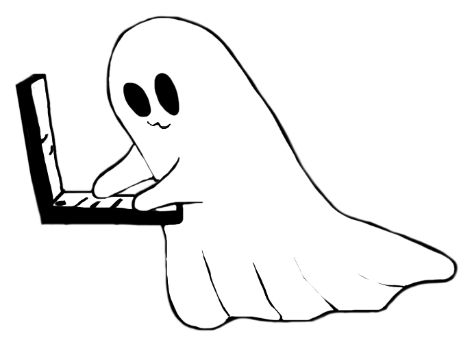 Ghostwriter.